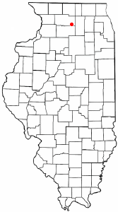 Category:Illinois city locator maps